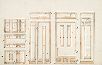 sketch of Kakelugn - tiled or masonry stove design by Carl Johan Cronstedt 1767. New technology developed then by him.